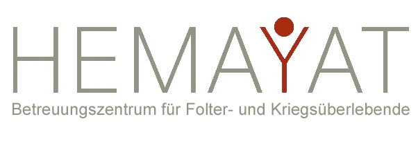 Hemayat Logo